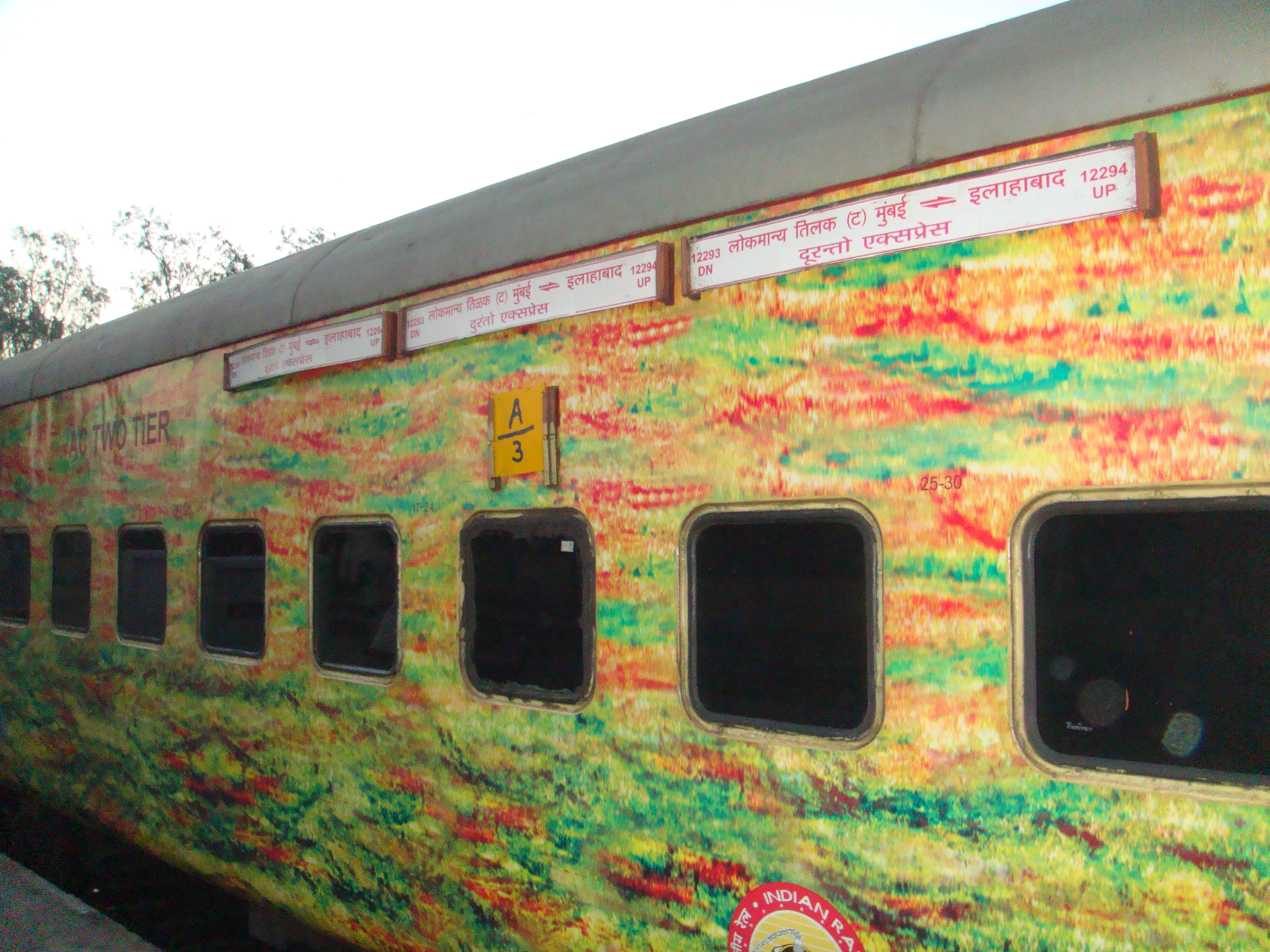 12293 Allahabad Duronto Express